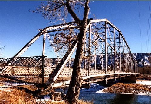 Bridgepixing the Rifle Bridge in winter on the Colorado River in western Colorado. This Bridge built in 1909 is now closed to traffic and is listed on the National Register of Historic Places. Additional Bridge Photos and Bridge Blog at